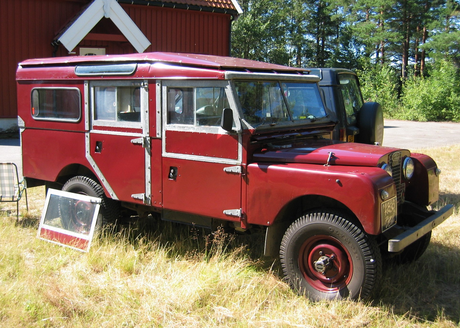 Land Rover Series I 107" Station Wagon in Evje, Norway on the Norwegian Land Rover Club's 30th anniversary meet on 2005-08-02. The plaque in the vehicle window states that the vehicle was sold from the LR factory to the British Transport Comission, British Railways' purchasing agency. It was sprayed red and spent much of it's working life on the North Wales Railway. Camera: Canon Powershot S45